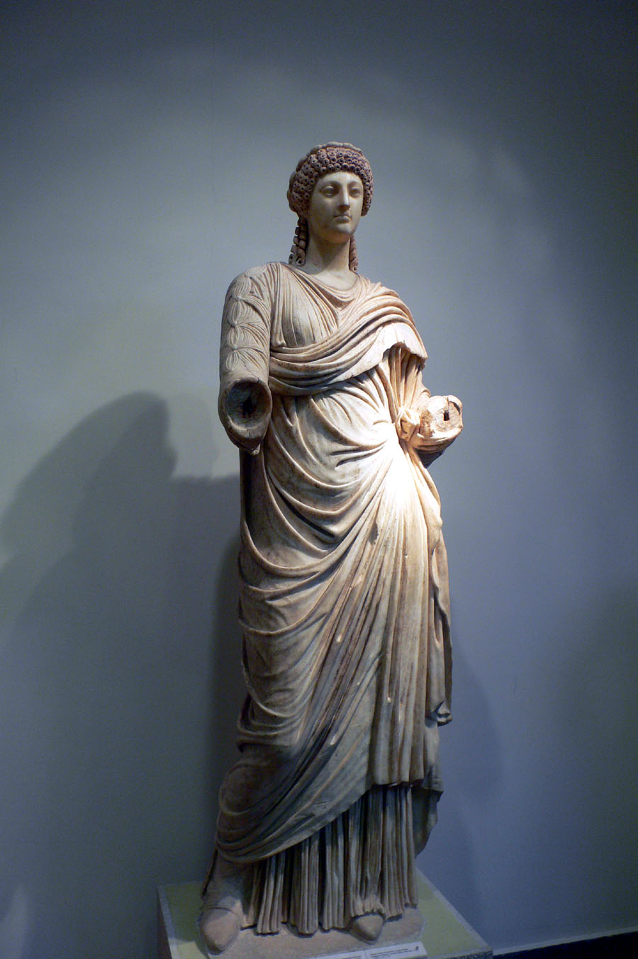 Poppaea Sabina. 2nd wife of emperor Nero. Archaeological Museum of Olympia (Greece)